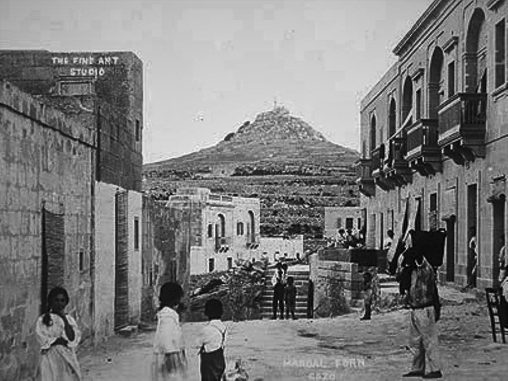 Gozo Marsalforn 1880s